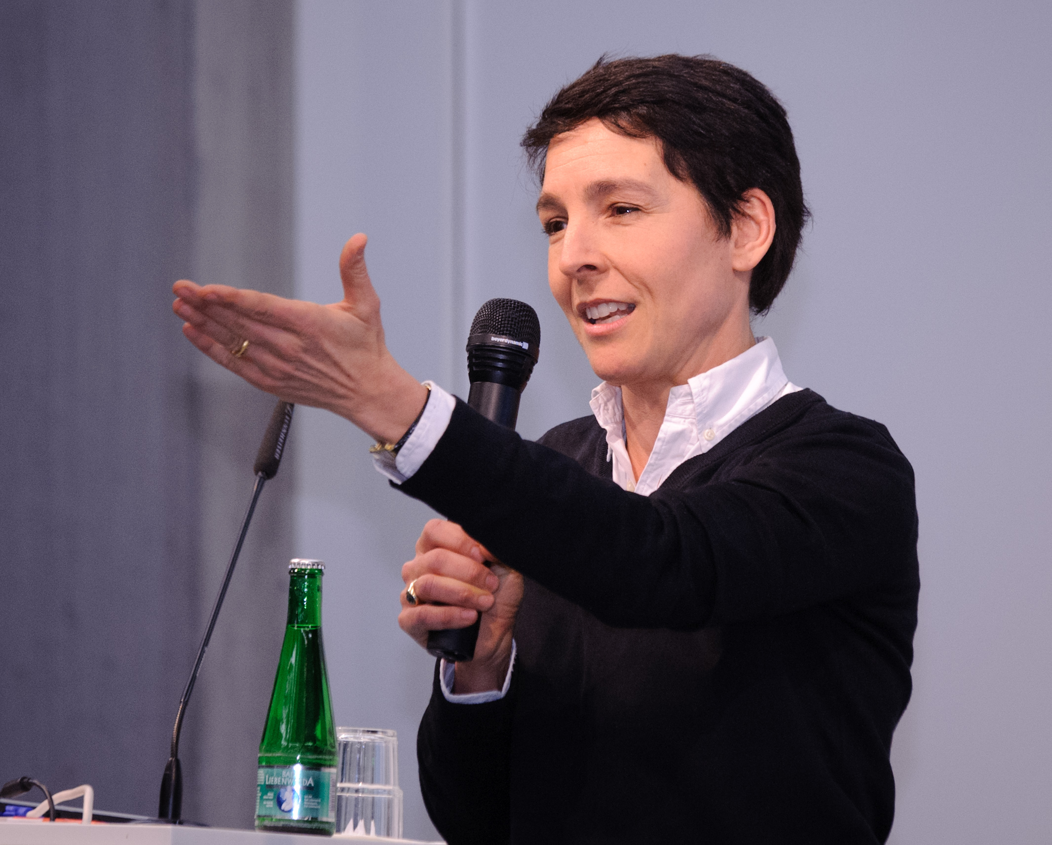 Andrea Thilo (Journalist and Film Producer, Berlin) radius of art - Konferenz Foto: Stephan Röhl